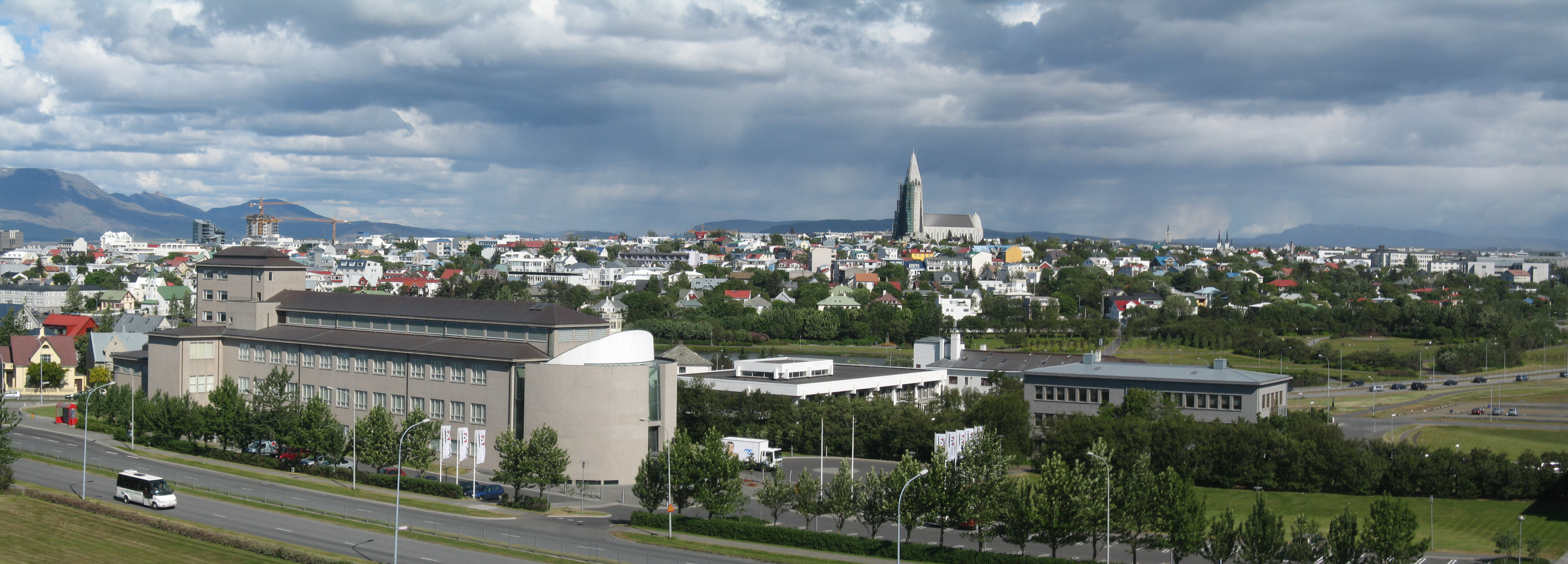 A panoramic view over the multicoloured roofs of Reykjavík, the capital of Iceland, from the SAS Radisson Saga hotel. In the foreground is the National Museum of Iceland (Þjóðminjasafn Íslands), to the left is the Esja mountain, and on the hill is the Hallgrímskirkja, the largest church in Iceland and the city's de facto cathedral. Panorama stitched using Canon Photostitch from photos taken by Wurzeller on 27 June 2008 at 16.04